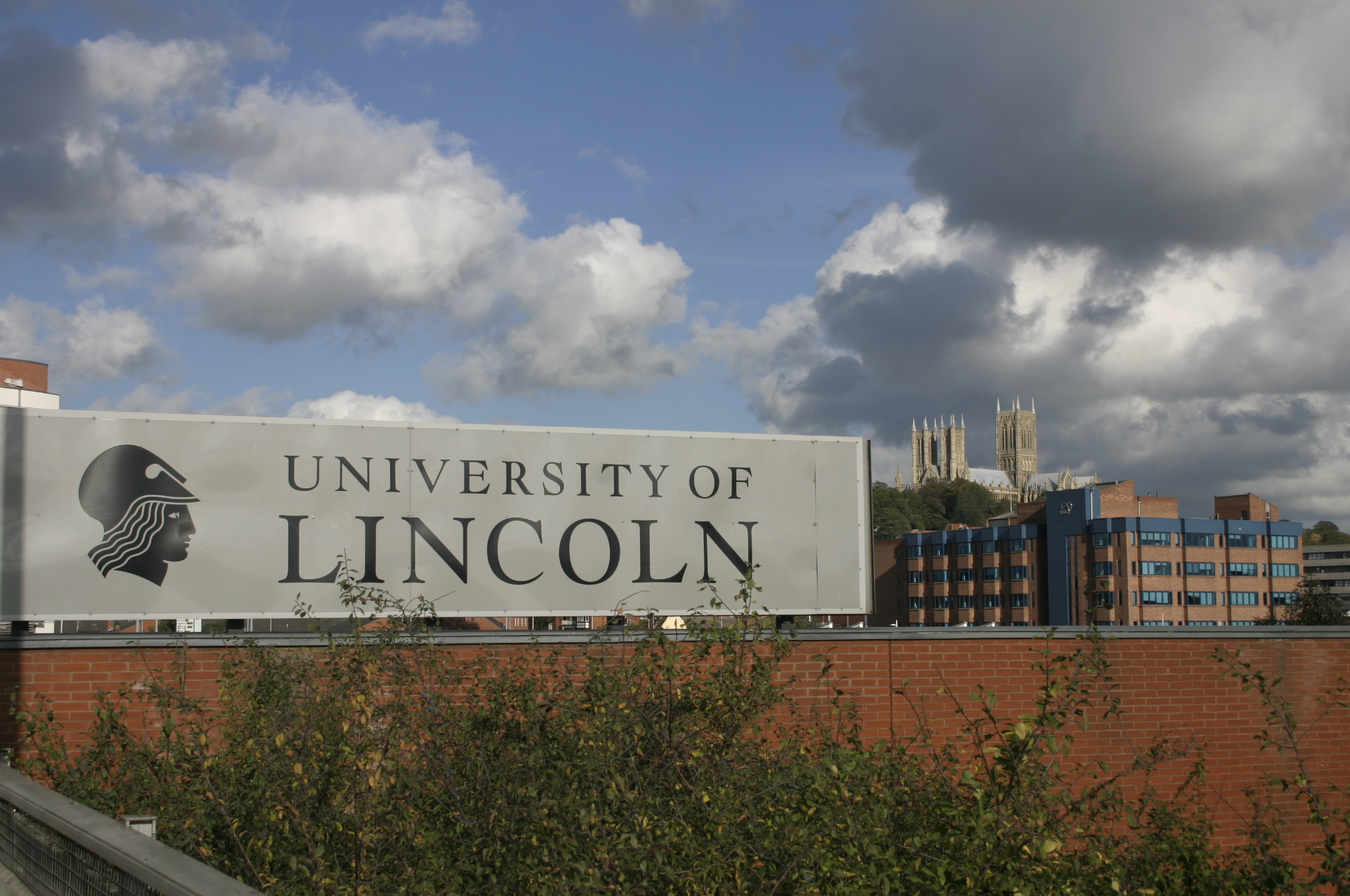 University of Lincoln - sign with logo